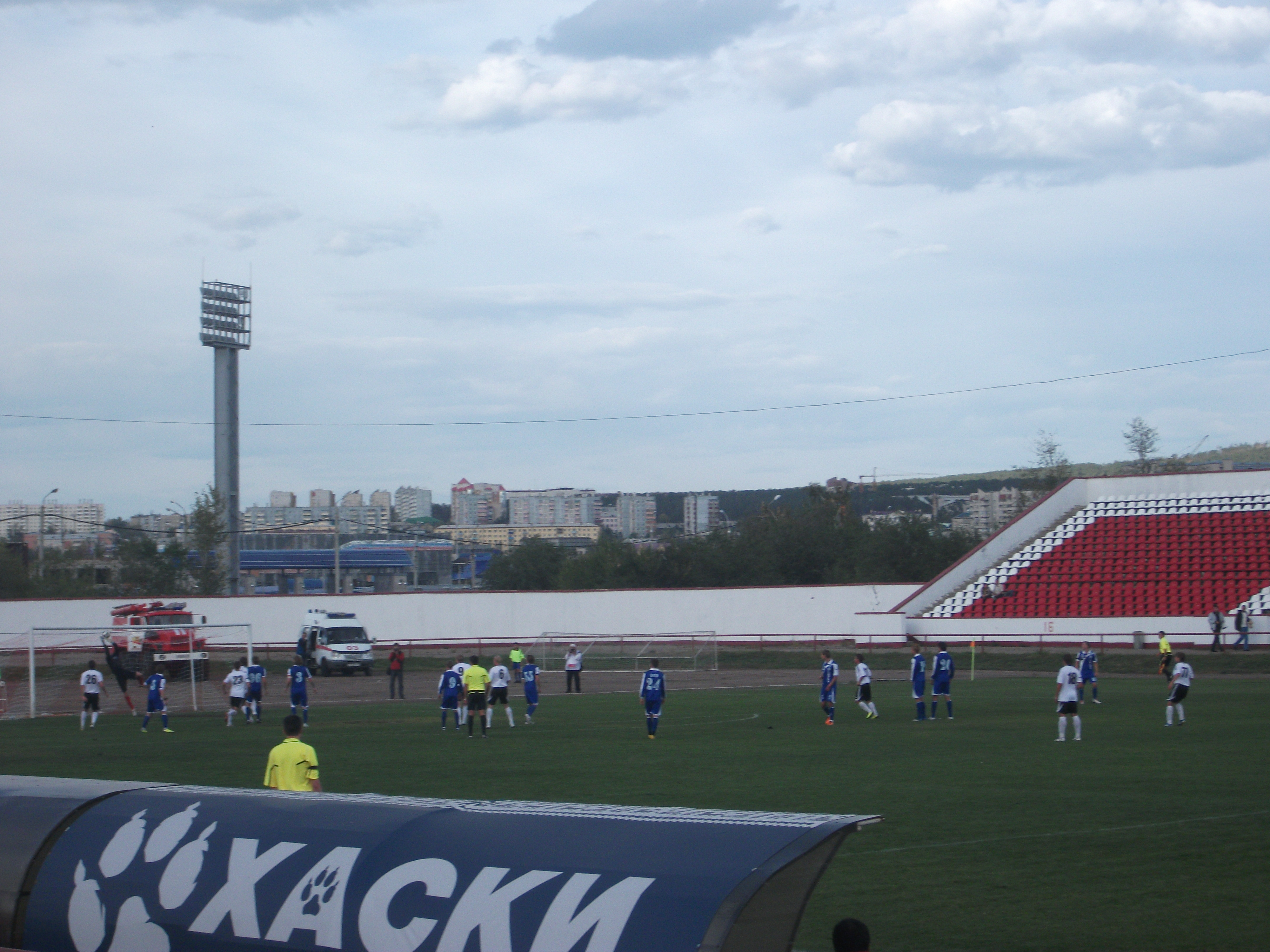 FC «Sibir-2» goalkeeper Ilya Trunin parried a free-kick by Alexander Simonenko. Episode of the match «Chita» - «Sibir-2». 26th round of the competition in «East» zone of the Russian second division. September 10, 2011.